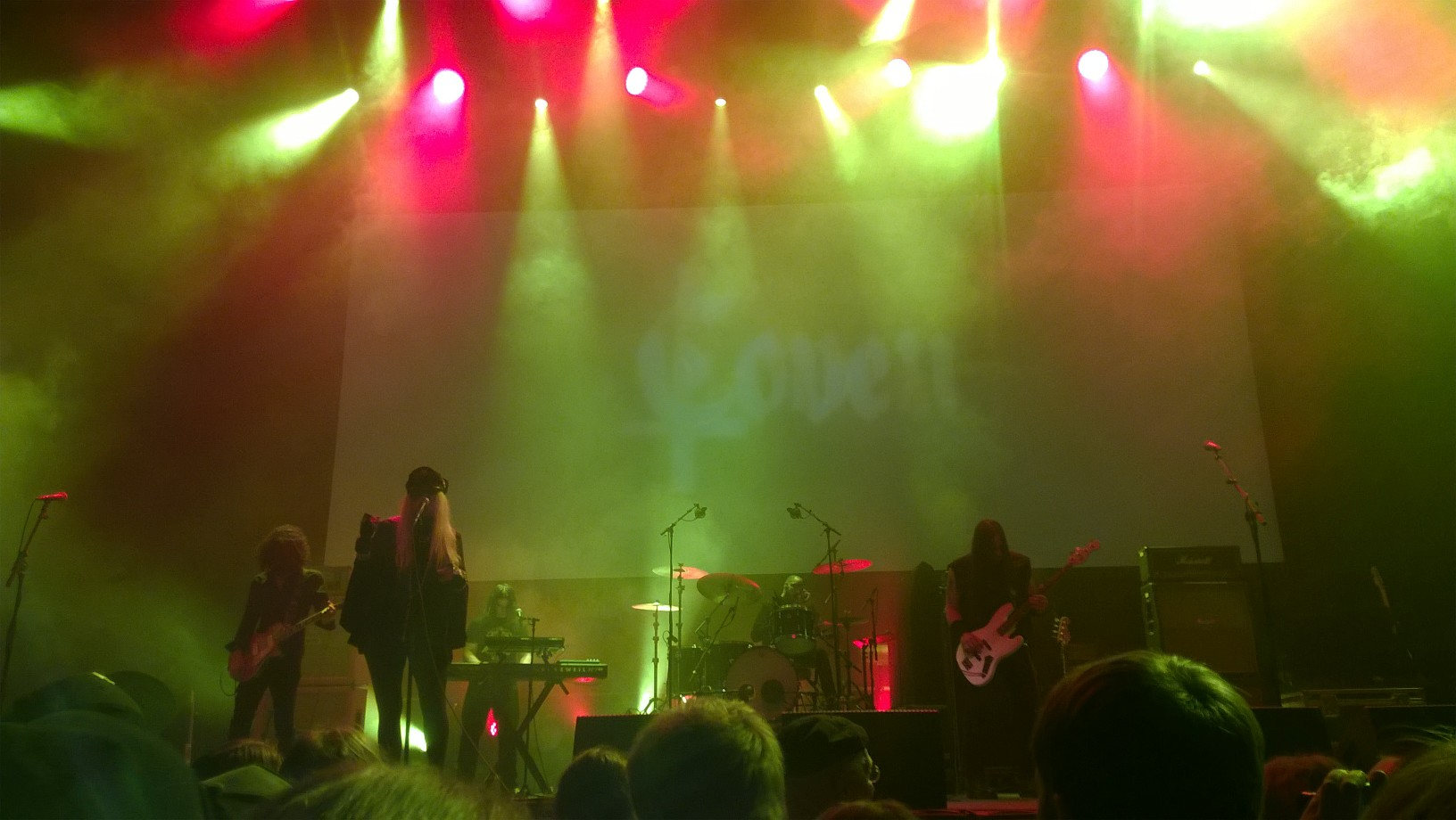 Coven at Roadburn Festival 2017